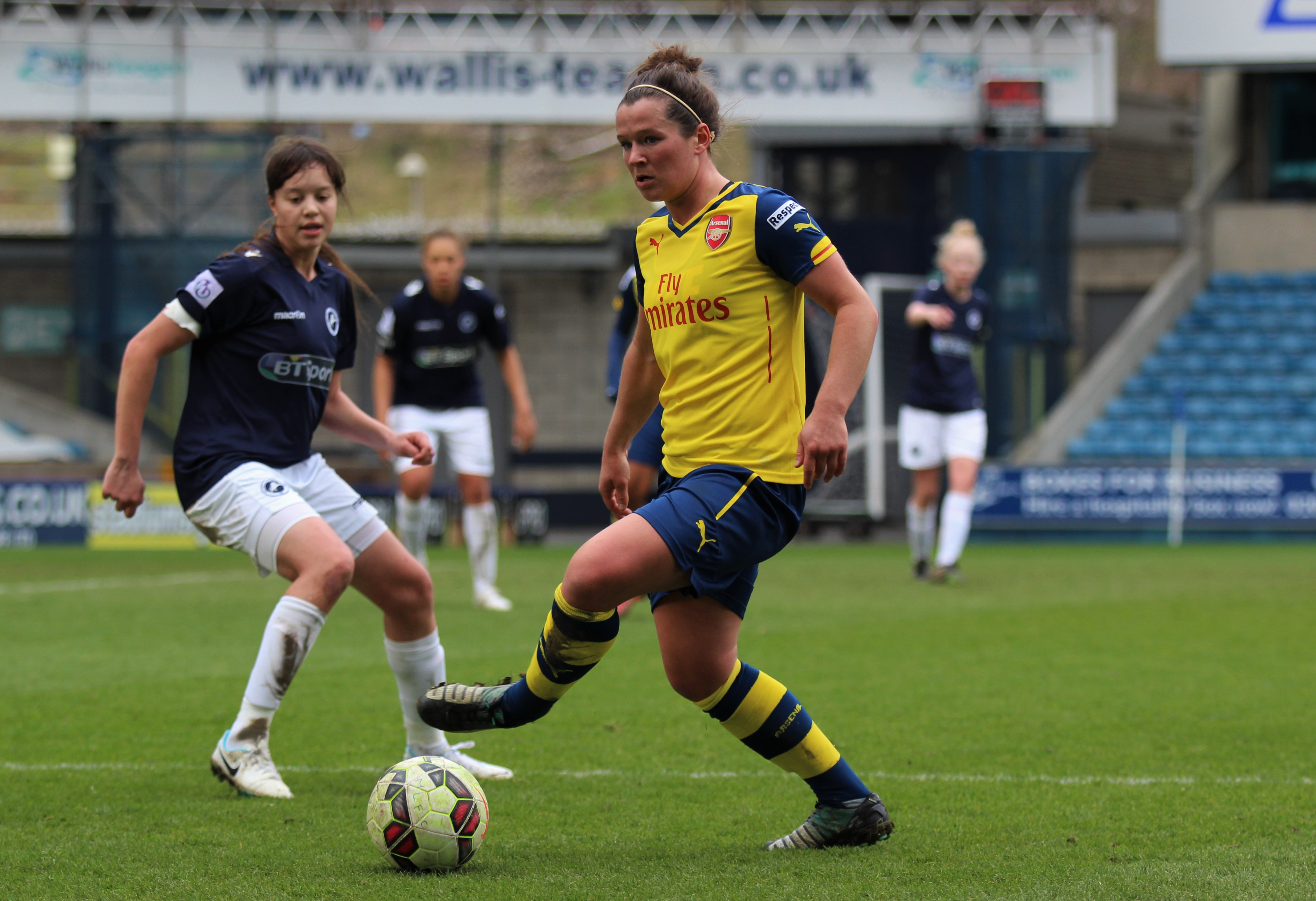 Emma Mitchell of Arsenal Ladies on the ball against Millwall Lionesses.